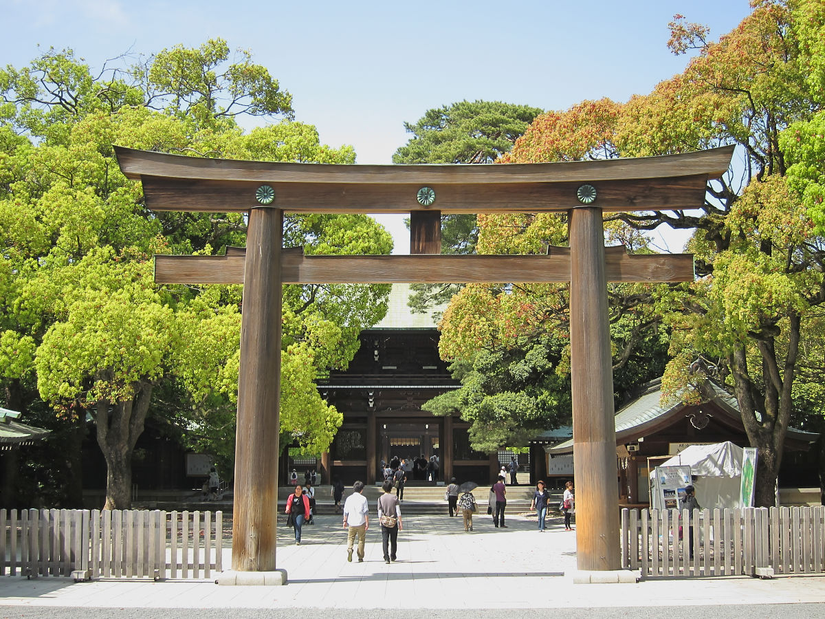 Meiji Shrine in Shibuya, Tokyo.